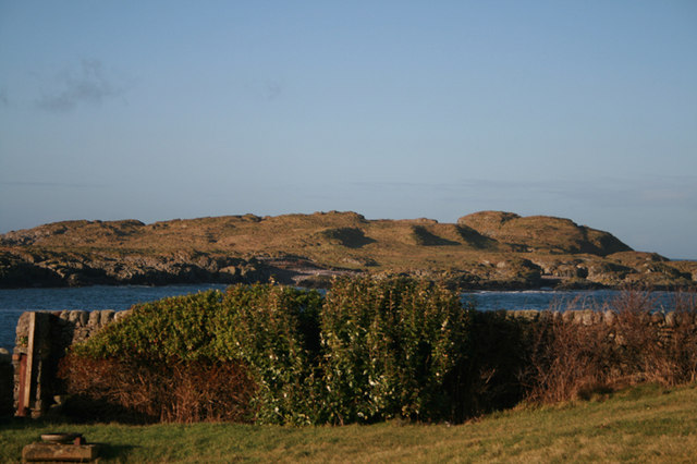 Eilean Coinnich, Islay Off the Rhinns peninsula on Islay, this island is uninhabited.